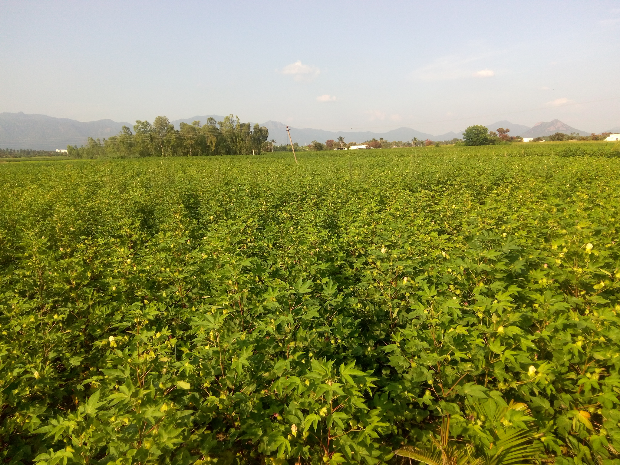 Cotton Field at Singalandapuram, Rasipuram, Namakkal District, Tamil Nadu, India